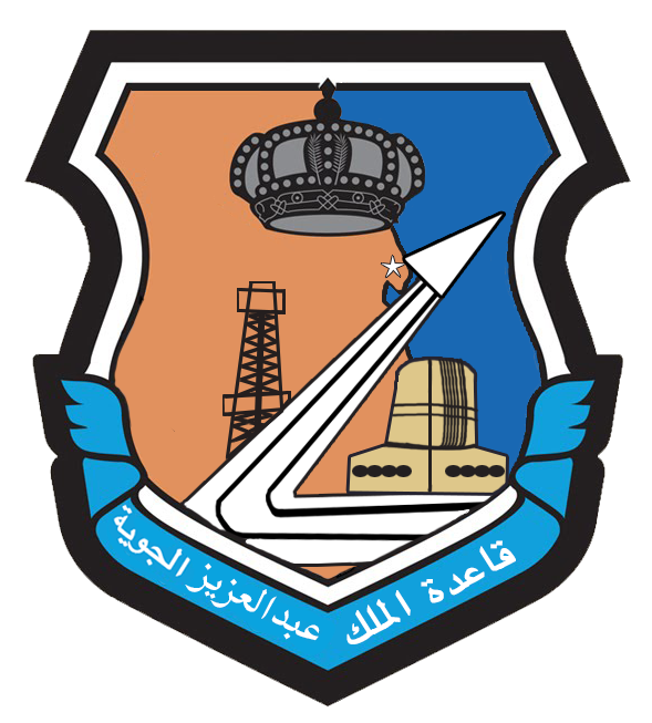 King Abdulaziz Air Base Emblem